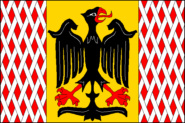 Municipal flag of Uničov town, Olomouc District, Czech Republic.